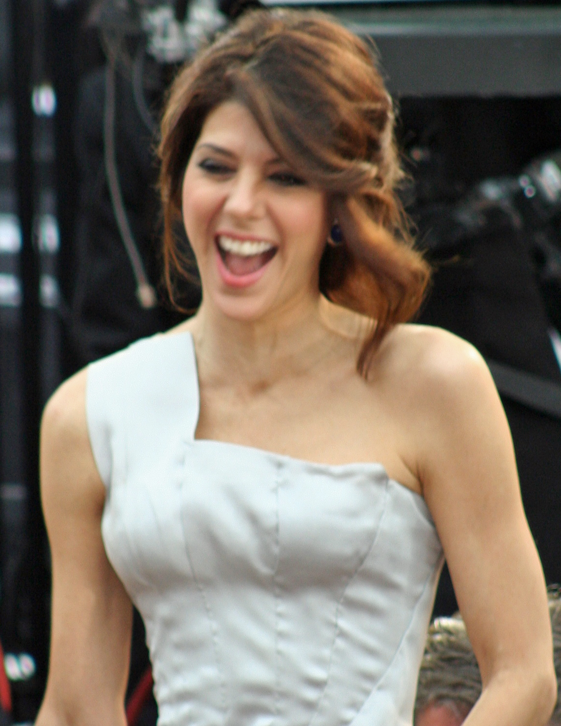 Marisa Tomei at the 81st Academy Awards